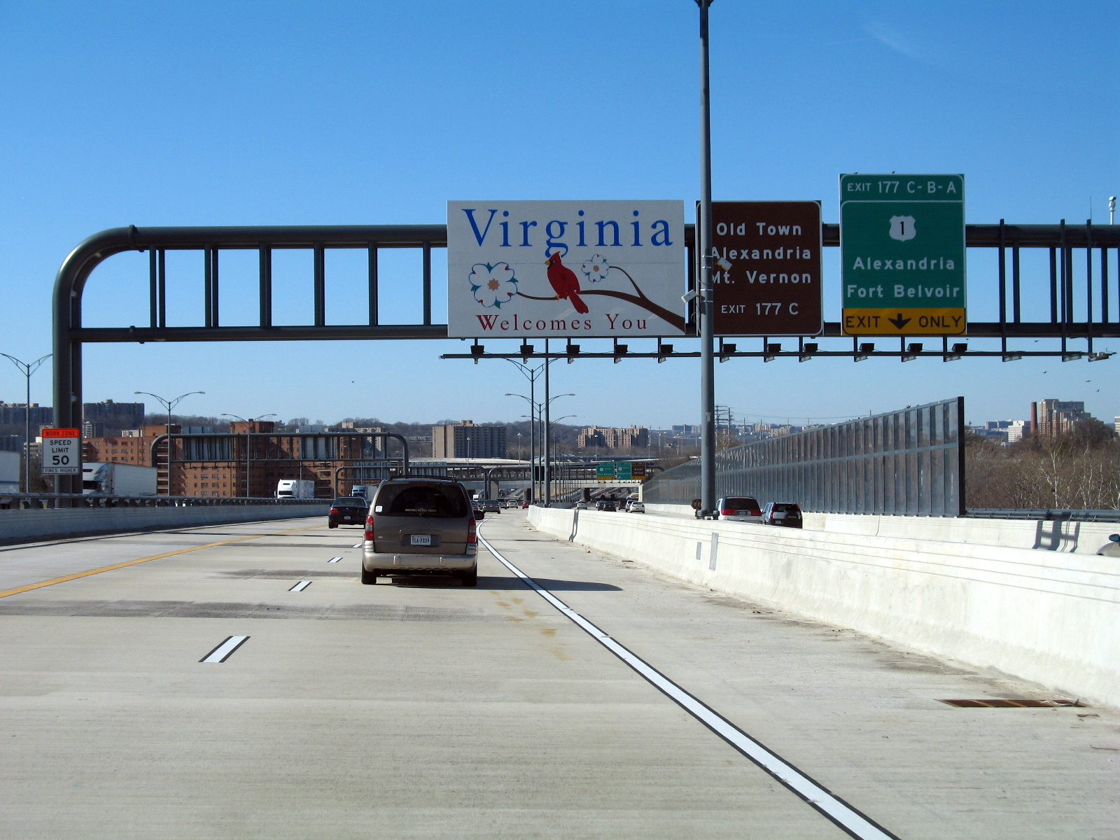 Entering Virginia on I-495/I-95 (Capital Beltway) over the Woodrow Wilson Bridge from Maryland